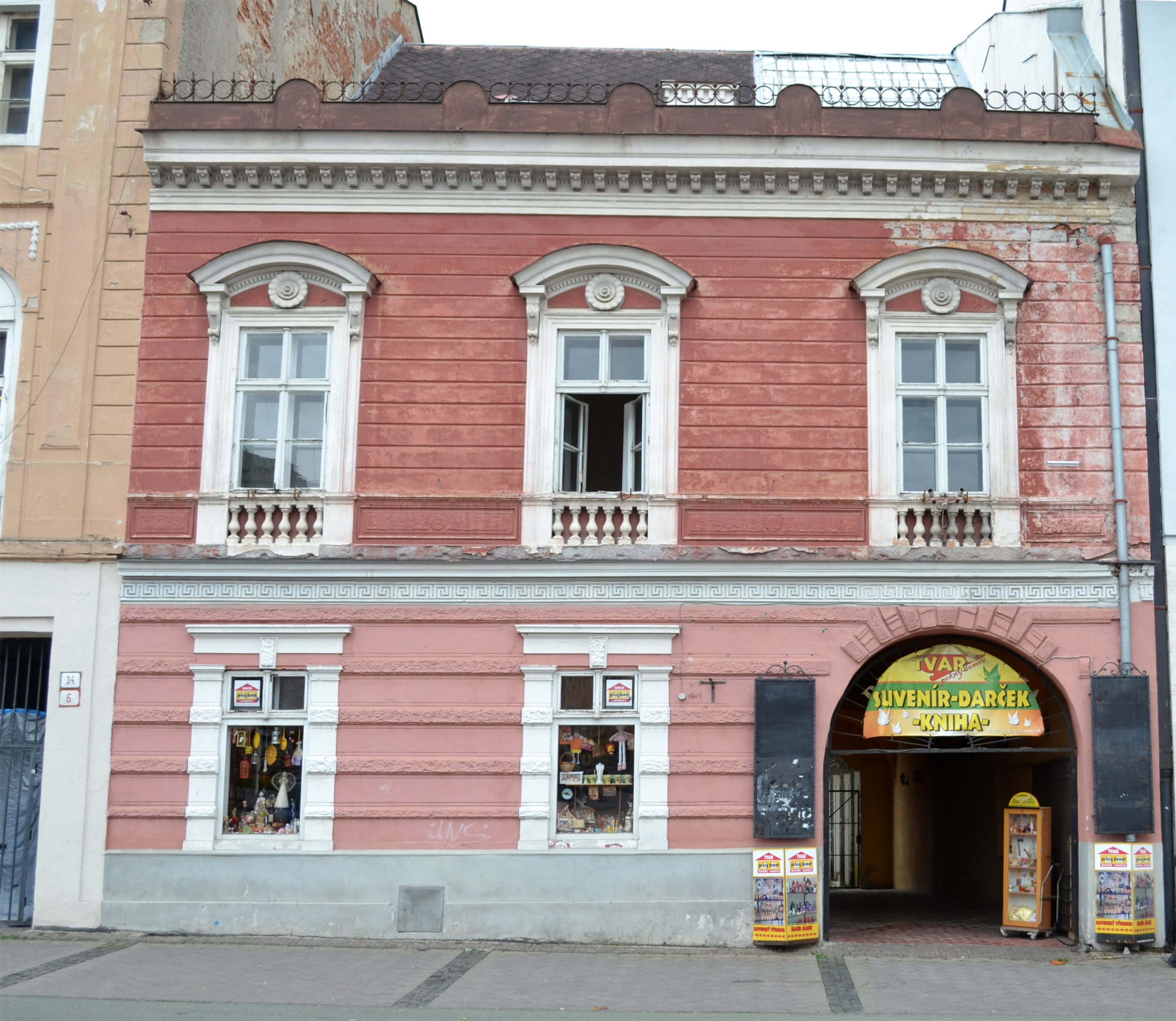 Memorial House, Square of Štefan Moyses 7, Banská BystricaSlovenčina: Pamätný dom, Nám. Štefana Moysesa 7, Banská Bystrica